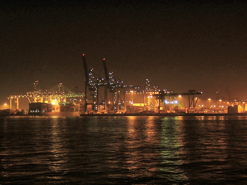 Netherlands: Rotterdam, ECT waalhaven at night.